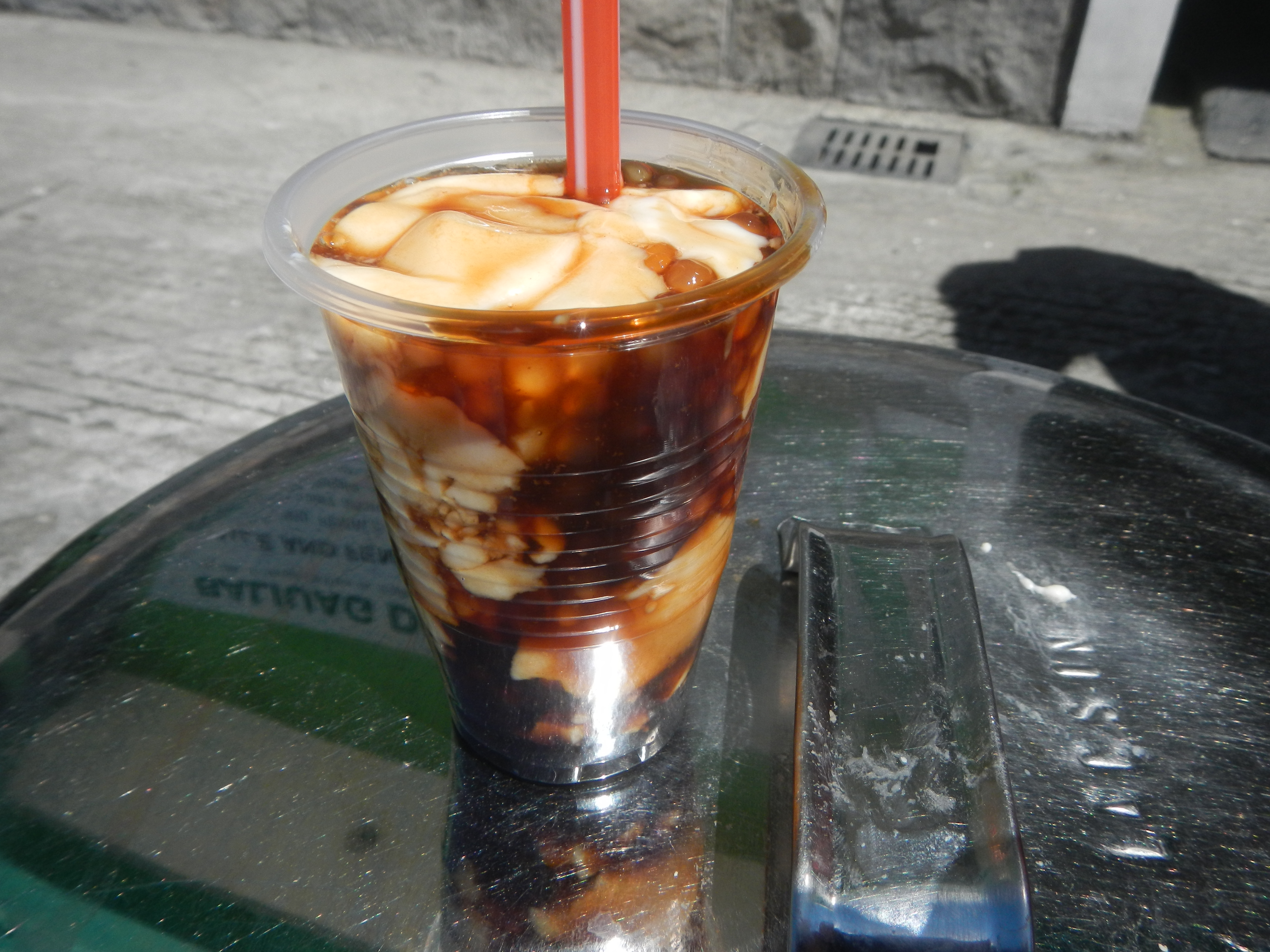 Taho Taho street vendors in the Philippines photos taken in Barangay Poblacion 14°57'17"N 120°54'2"E Baliuag, Bulacan, Bulacan province (Note: Judge Florentino Floro, the owner, to repeat, Donor Florentino Floro of all these photos Judge Floro hereby donate gratuitously, freely and unconditionally all these photos to and for Wikimedia Commons, exclusively, for public use of the public domain, and again without any condition whatsoever).